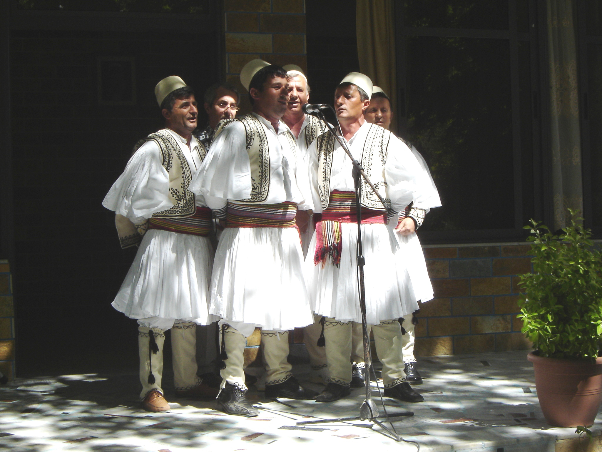 Traditional male group singing in the Area of Skrapar, South-Est Albania.